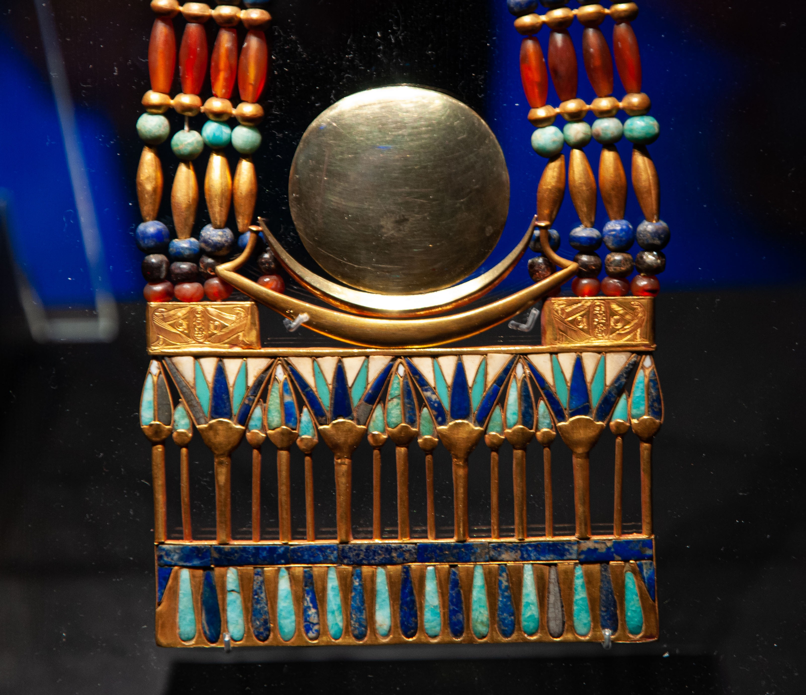 Breastplate of Tutankhamen photographed during the exhibition "Tutankhamen, the Pharaoh’s Treasure" in Paris - 2019.